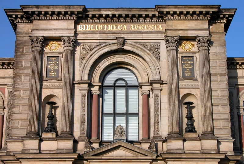 Wolfenbüttel, Germany: Detail of the entrance portal of Herzog August Library.